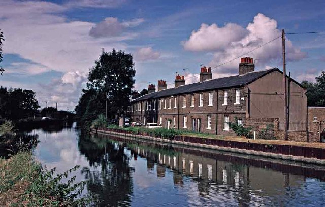 Government Row, Enfield Lock These cottages were originally homes for the workers in the Small Arms Factory. The Enfield Island Village Estate has been developed on the site of the Small Arms Factory since this photograph was taken